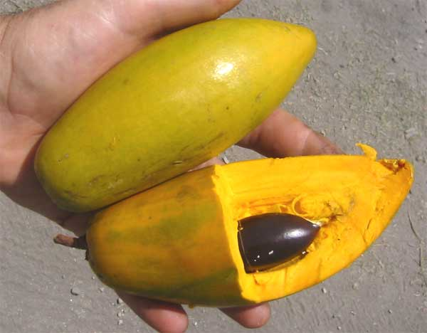 From Jim: "Here this fruit is called Sapote Colorado but I think it's the same as what I know from Guatemala as Caimito Amarillo, Latin name Pouteria caimito. The fruit tastes like a slightly dry but sweet yam or sweet potato." However, based on pictures on the internet I think this is a yellow sapote / canistel (Pouteria campechiana). Bân-lâm-gú: sian-thô. 仙桃